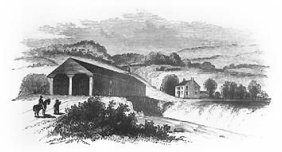 The 1838 Romney Bridge, alternatively known as the South Branch Bridge, conveyed the Northwestern Turnpike over the South Branch Potomac River west of Romney, Hampshire County in the U.S. state of West Virginia. This bridge was destroyed during the American Civil War.